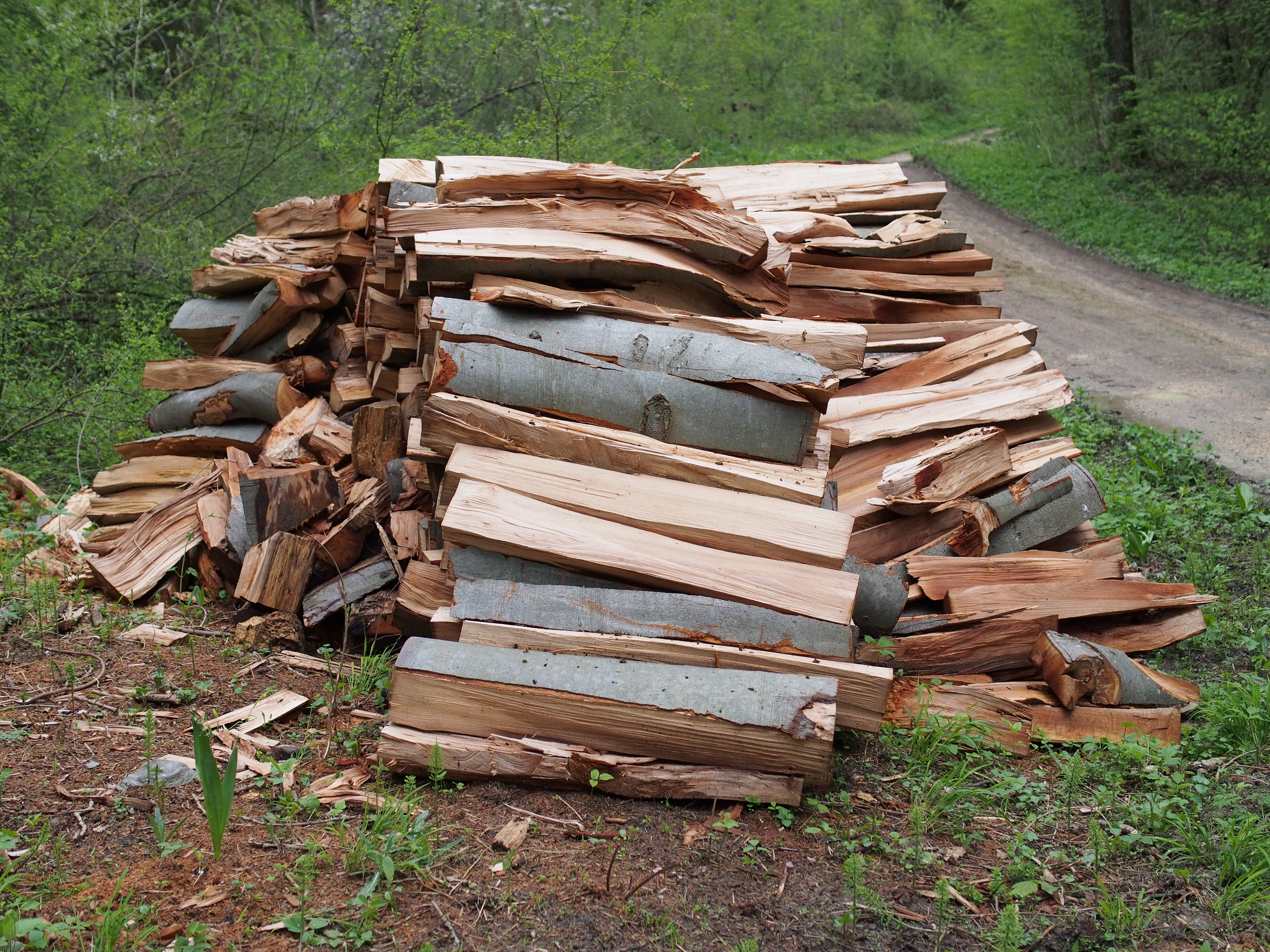 A heap of chopped beech wood in the forest